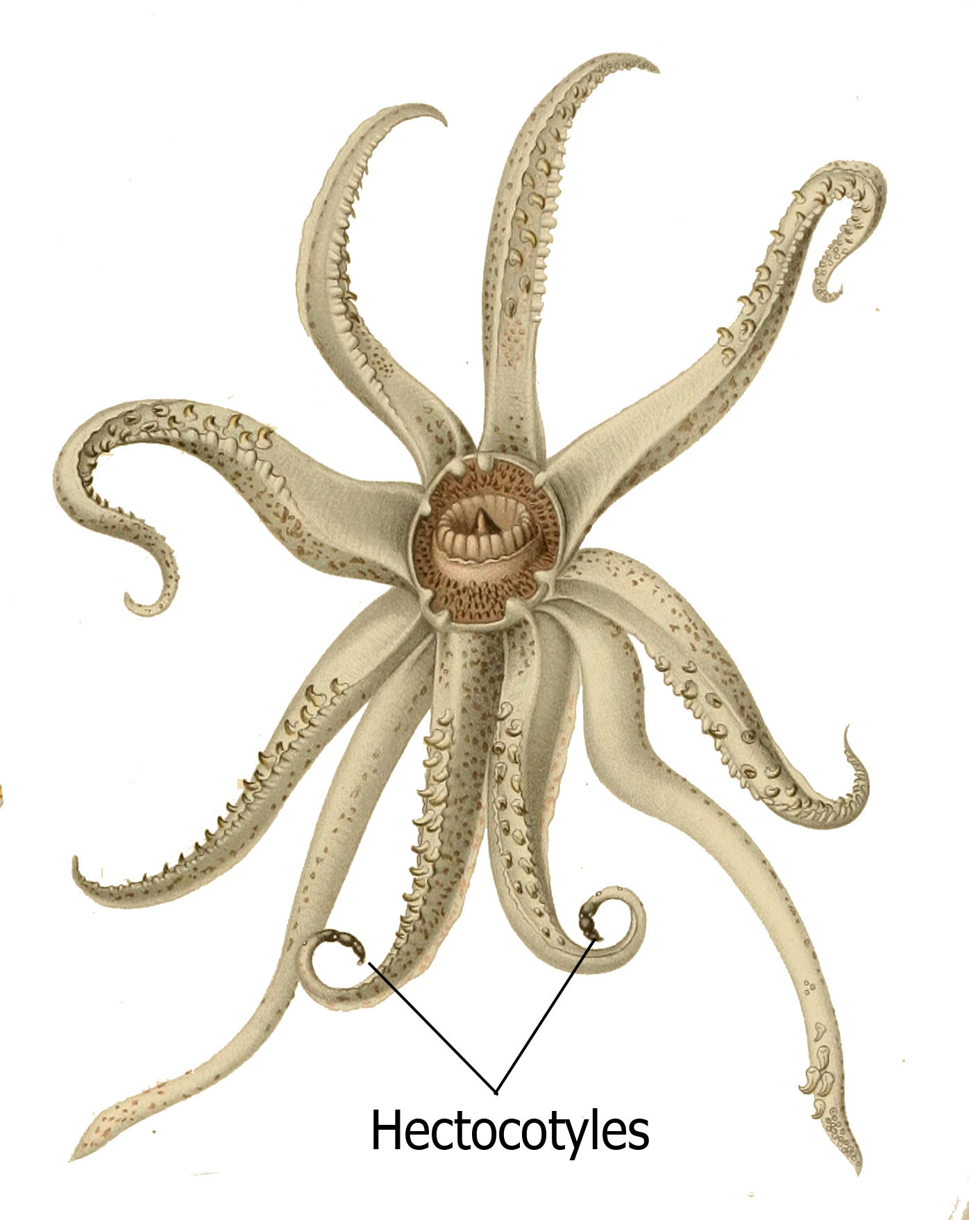 Abraliopsis morisi hectocotylus